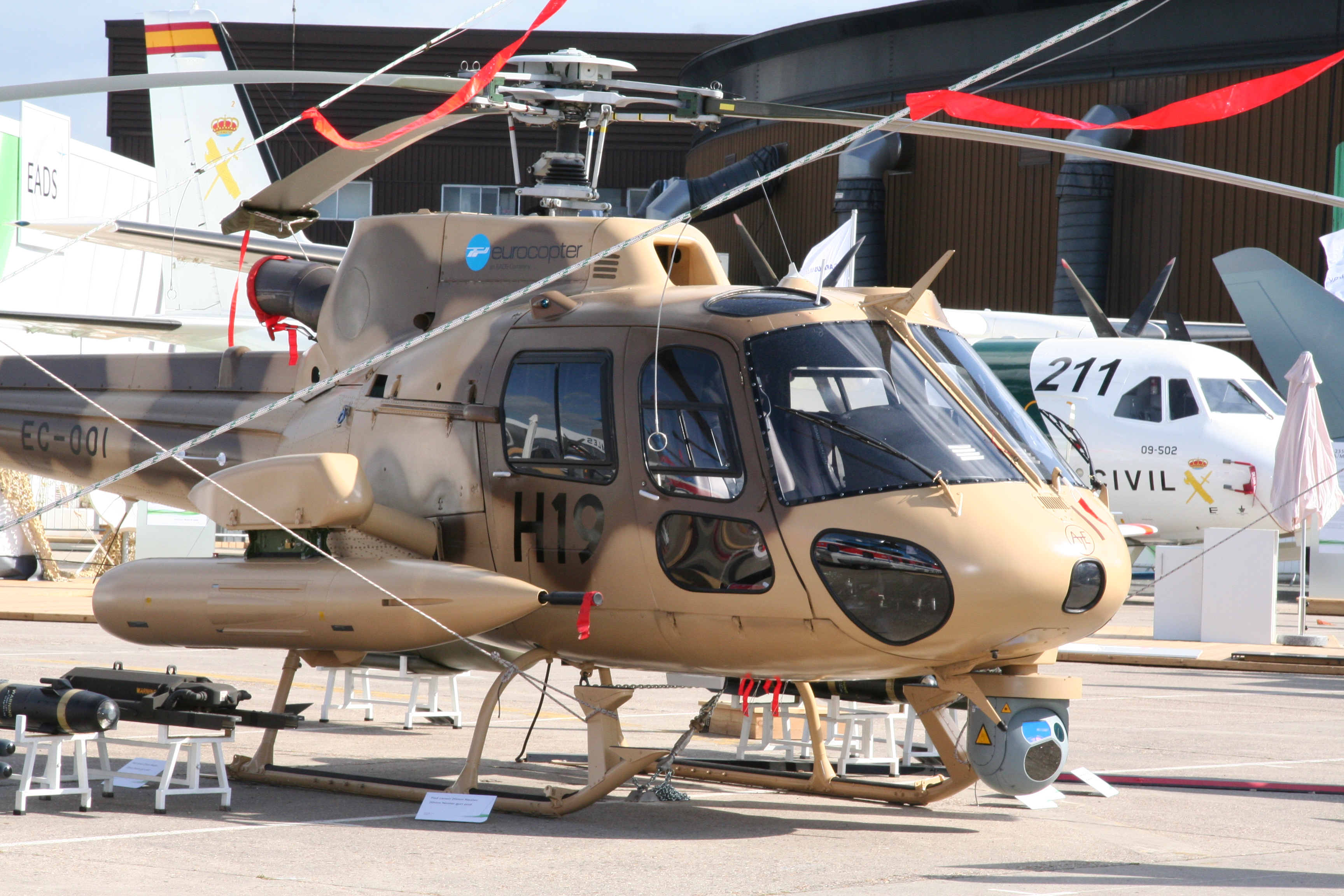 Eurocopter AS550 C3 Fennec - Paris Air Show 2009